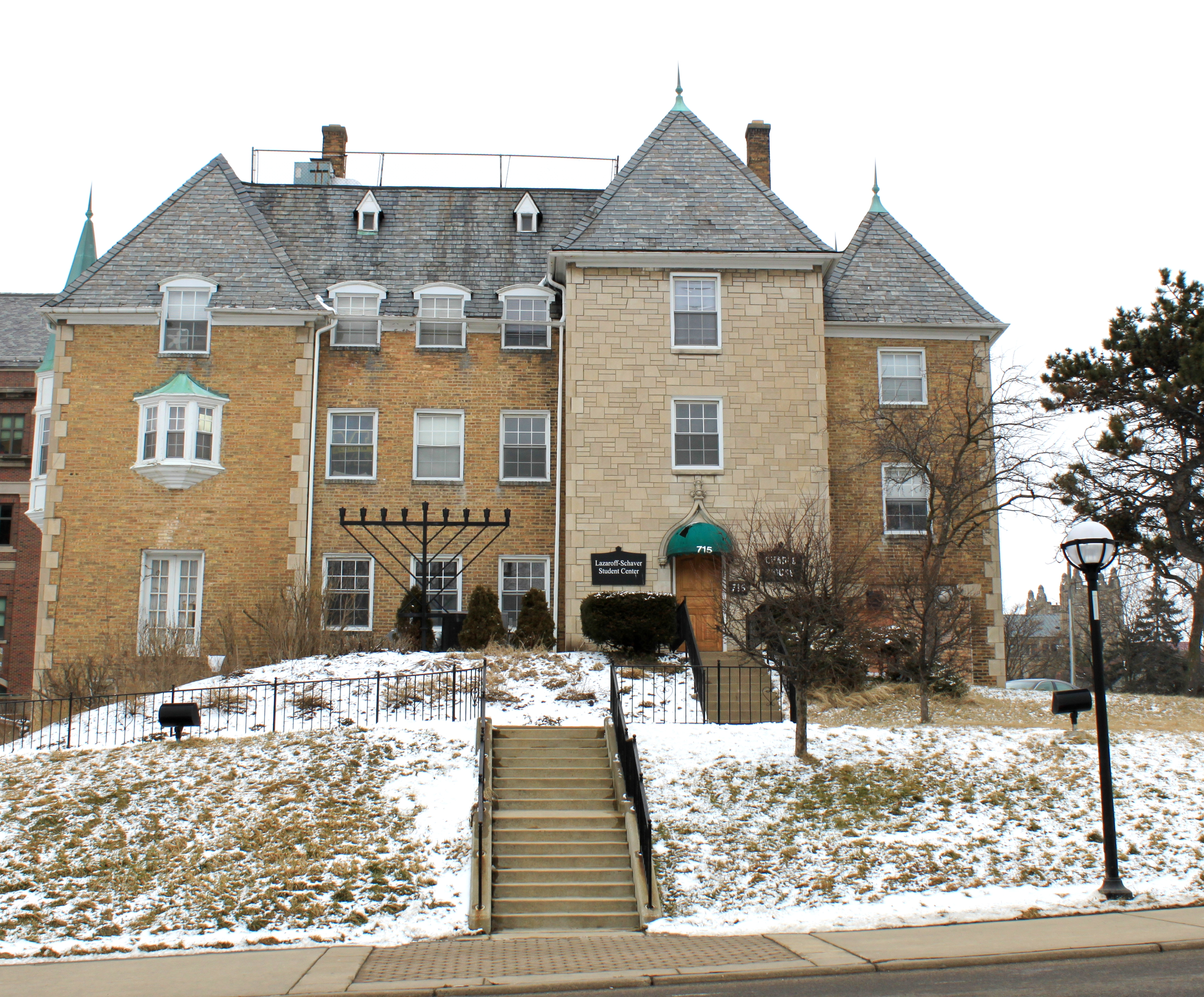 Chabad House, 715 Hill Street, Ann Arbor, Michigan. I was told by Rabbi Aaron Goldstein of Chabad House that the building was constructed in 1927 and originally housed the Pi Lambda Phi fraternity. Chabad House bought the building in 1975.